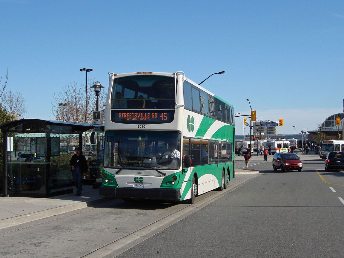 GO Transit 8010 at Plat2008-09-13form 1 of Square One Bus Terminal, Mississauga, Ontario